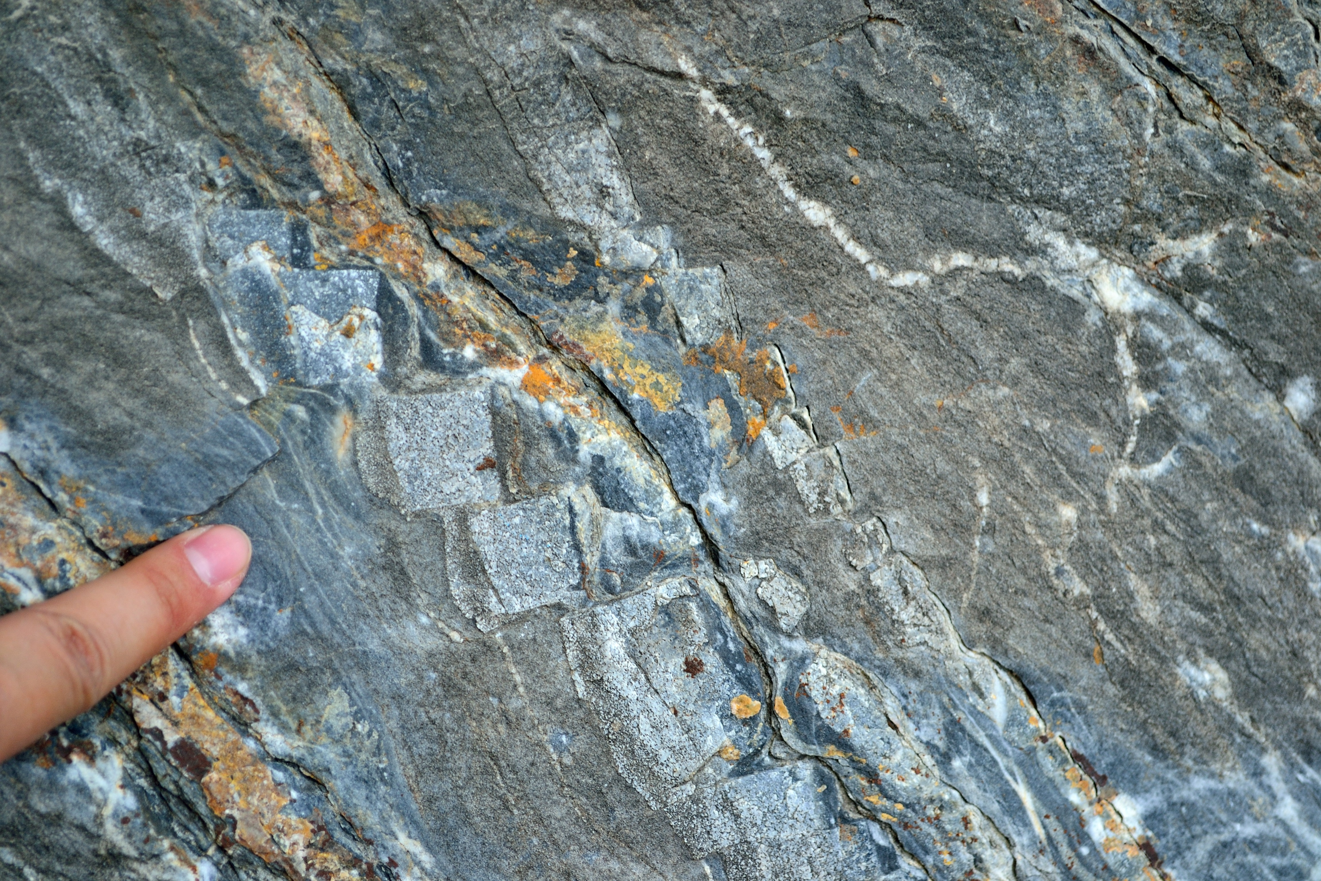 Boudinage in marbles of the Kopaonik Metamorphic Series (Jadar - Kopaonik unit, distal part of the Adriatic microplate), Kopaonik Mts., SerbiaСрпски (ћирилица): Будинаж развијен у мермерима и калкшистима Копаоничке метаморфне серије (Јадарско-копаоничка јединица, дистални део Јадранске микроплоче), Копаоник, Србија